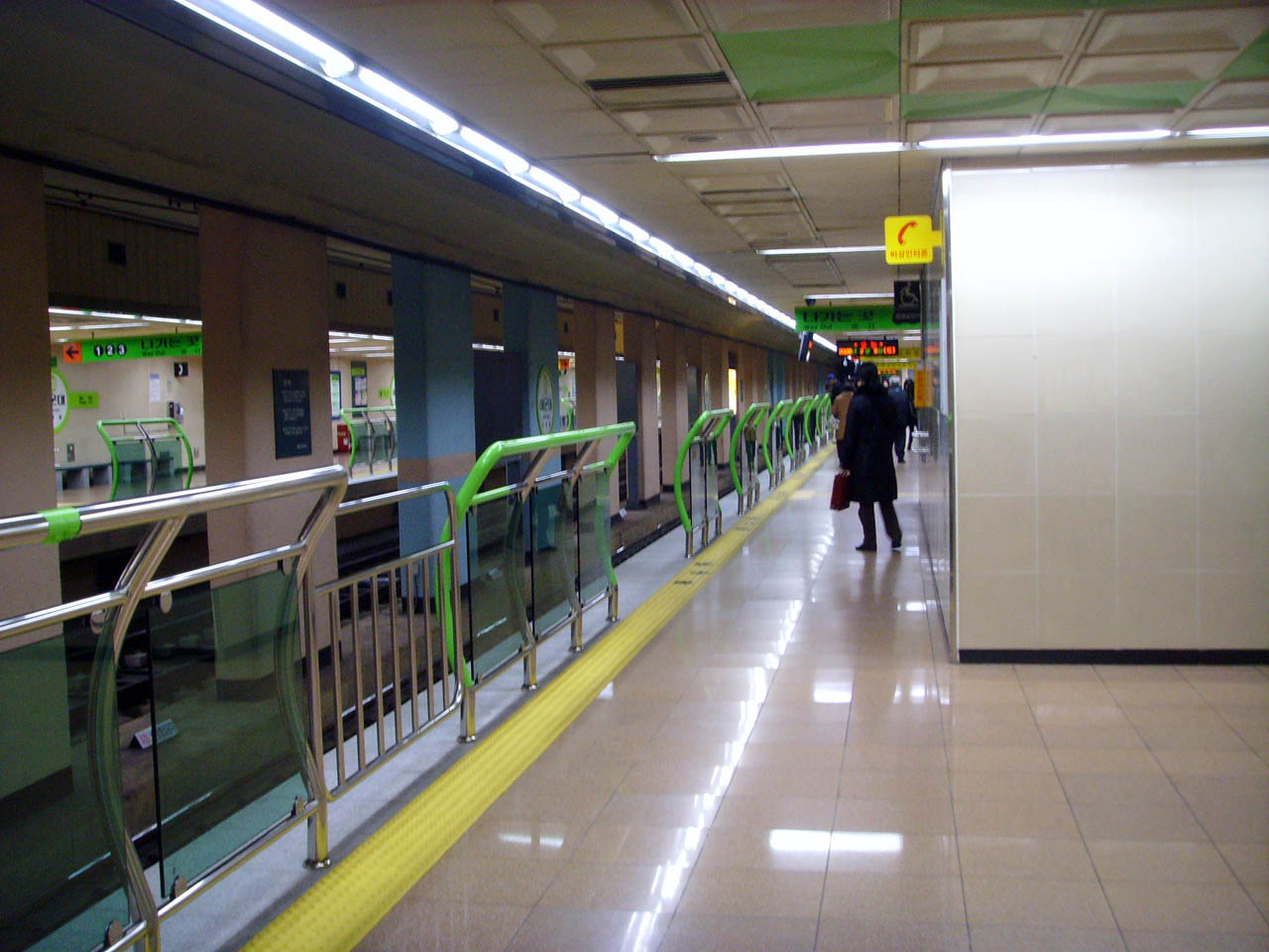 Haeundae Station (Busan Subway #2)